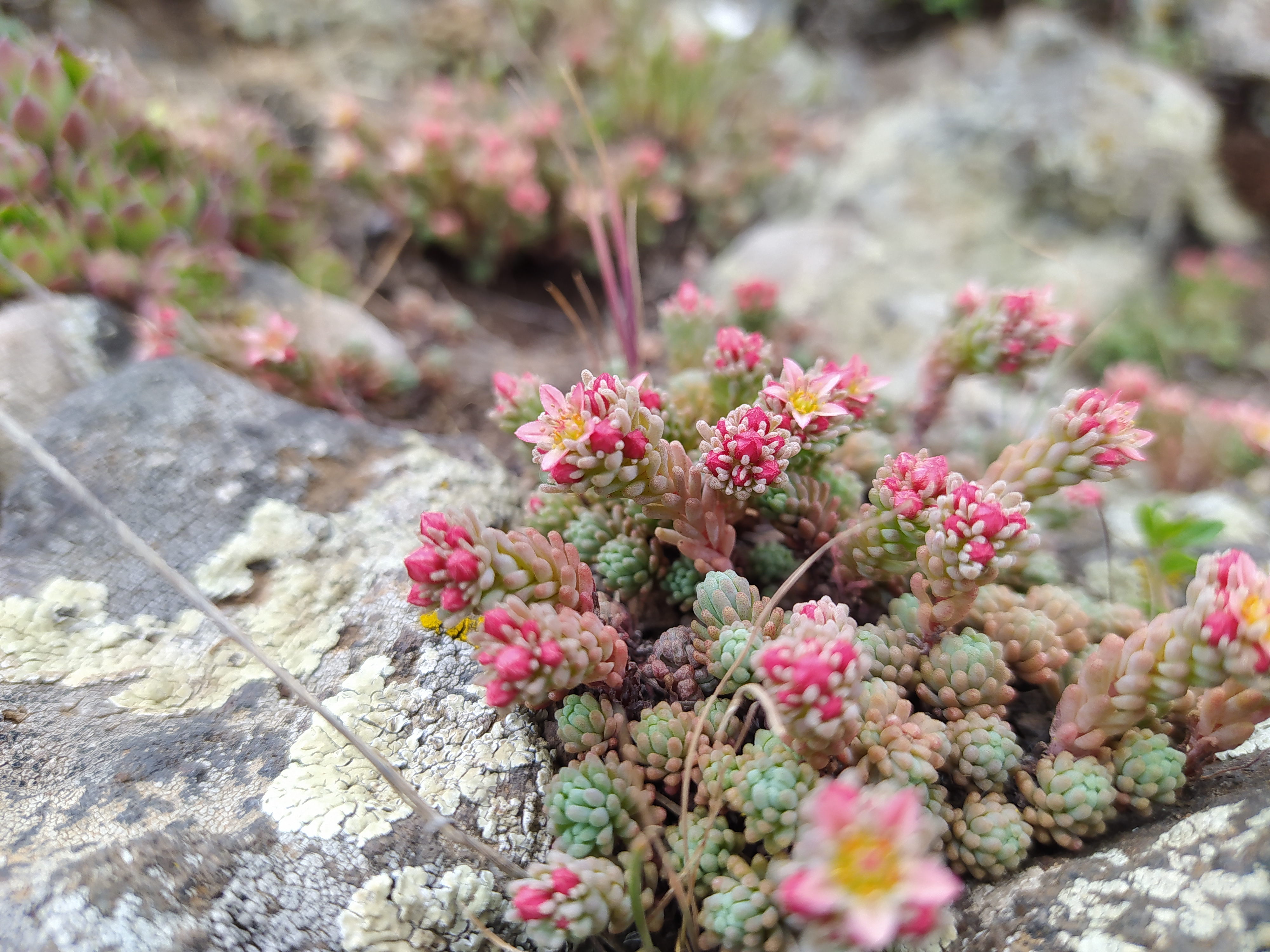 Sedum tenellum on the very top of mount Teghenis, Tsaghkunyats Mountains